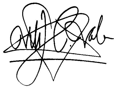 Ville Valo's signature